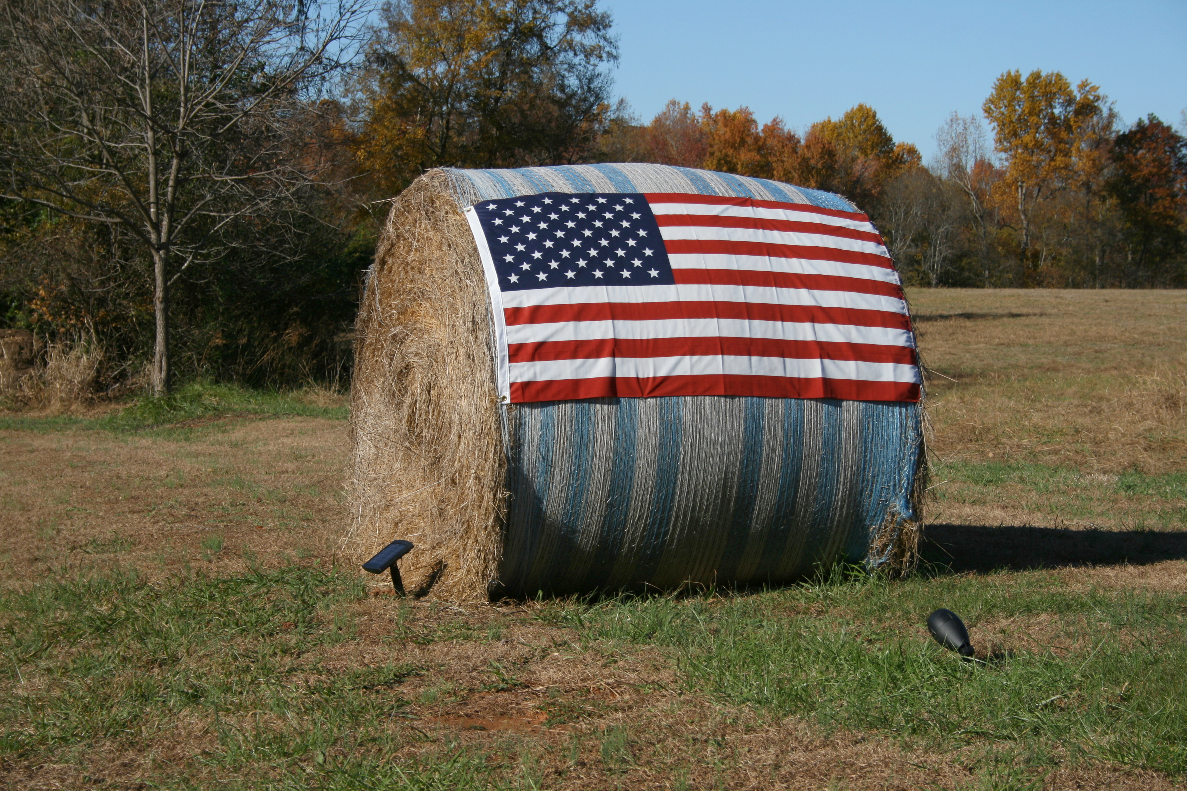 A round bale of hay with a flag of the United State of America on display for the 2008 presidential election on New Hope Church Road (Highway 1723) near Hillsborough, North Carolina. Note the solar panel and spot light set up to illuminate the display at night.